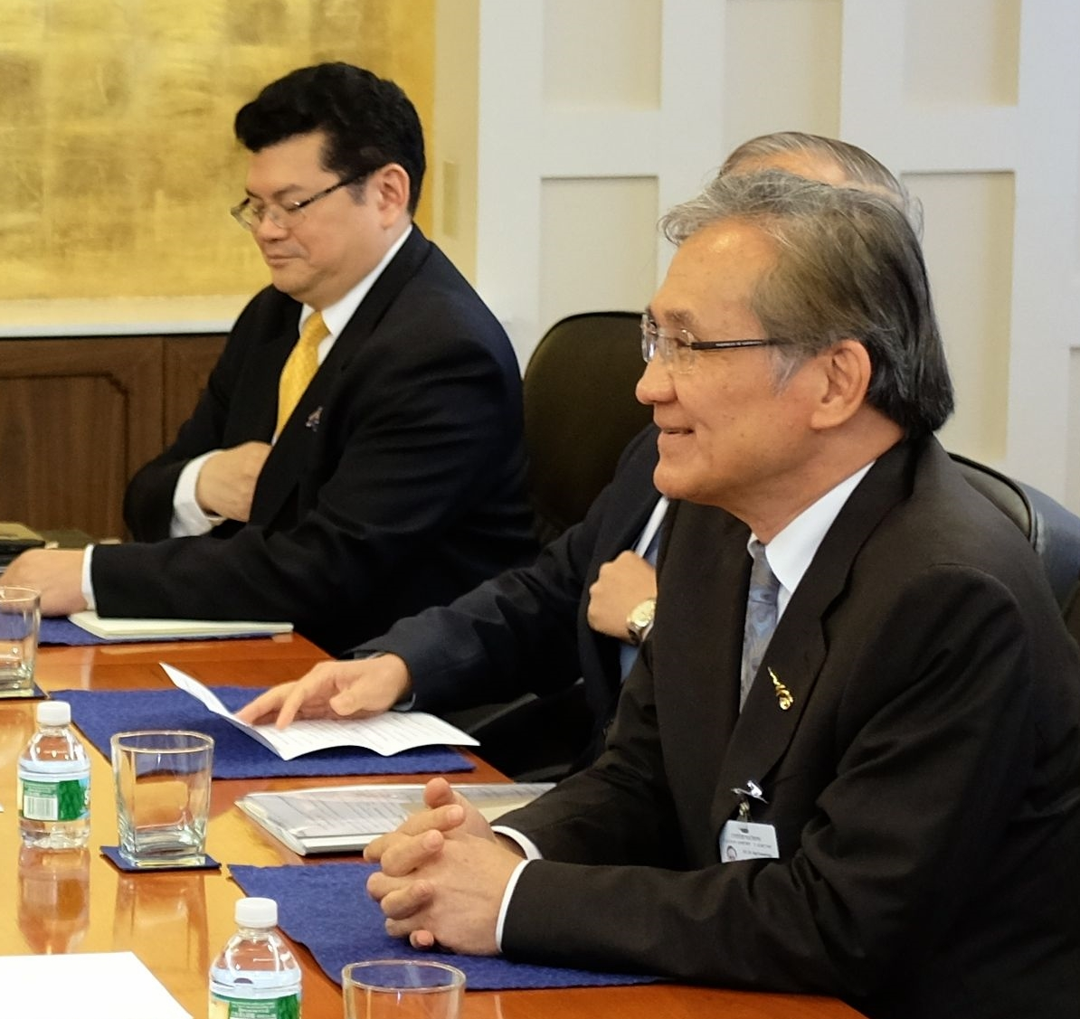 Deputy Secretary of State Antony "Tony" Blinken and Assistant Secretary of State for East Asian and Pacific Affairs Daniel Russel meet with Thai Foreign Minister Don Pramudwinai on the sidelines of the 70th Regular Session of the UN General Assembly in New York, New York, on September 27, 2015. [State Department photo/ Public Domain]